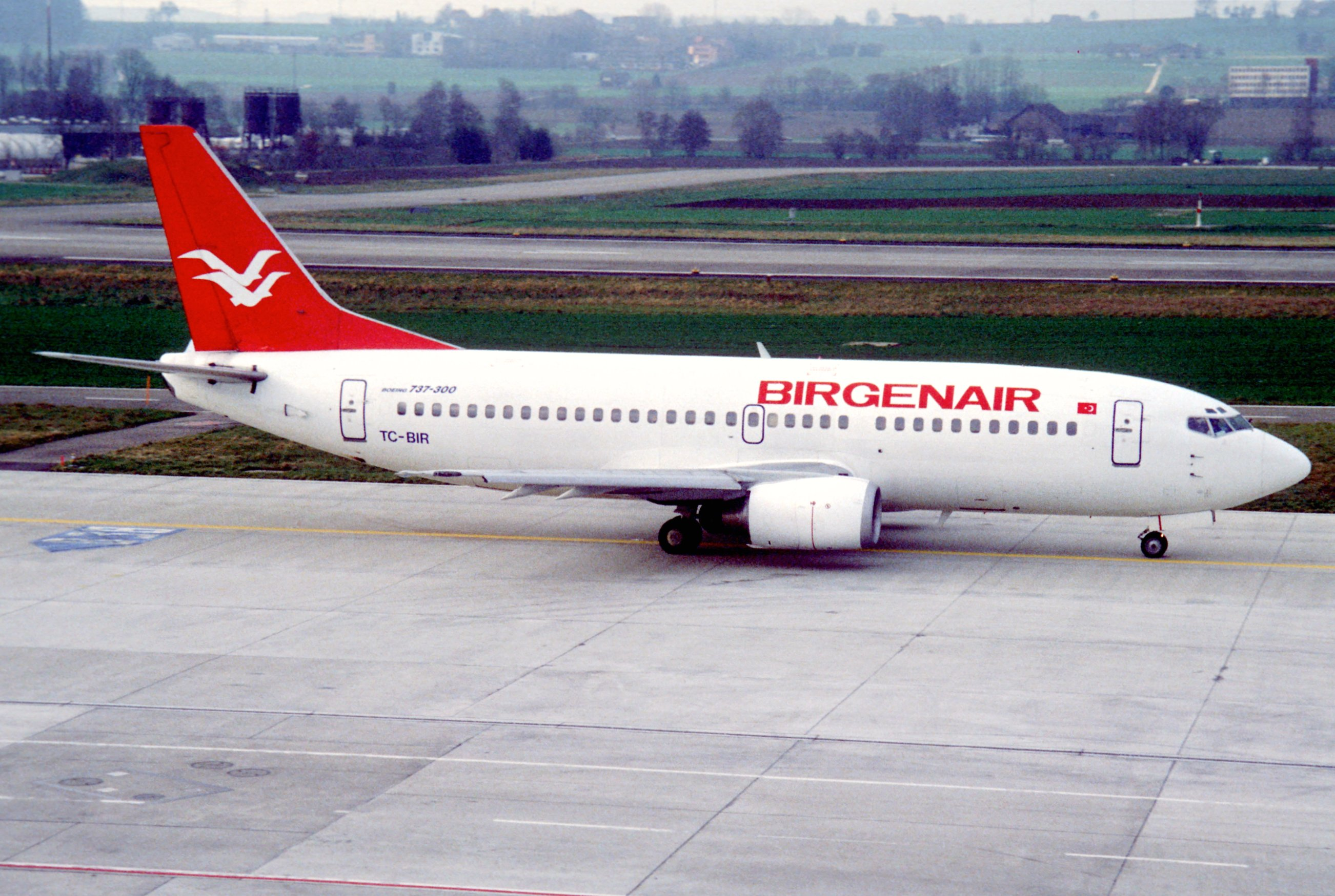 This Boeing 737-3M8 took its first flight on March 14, 1991...(c/n 25040/ 2017) 22/03/1991 TEA OO-LTK 29/04/1991 TEA UK OO-LTK 18/11/1991 AI IV PH-YAA 15/12/1991 AI IV VR-BRC 24/02/1992 Cayman Airways VR-CRC 17/03/1993 Birgenair TC-BIR 25/05/1994 Sobelair TC-BIR 25/09/1994 Birgenair TC-BIR 19/04/1996 Cameroon Airlines TC-BIR 11/05/1996 Sobelair OO-SBX ceased operations January 2004 01/03/2004 Norwegian Air Shuttle LN-KKP stored 09/2010 01/05/2011 KalStar Aviation PK-KSN